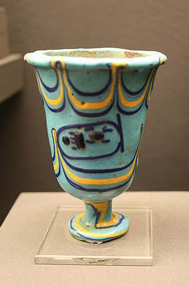 Glass cup with the Name of Pharaoh Thutmosis, Munich Museum.Cartouche: "Men-kheper-Ra"